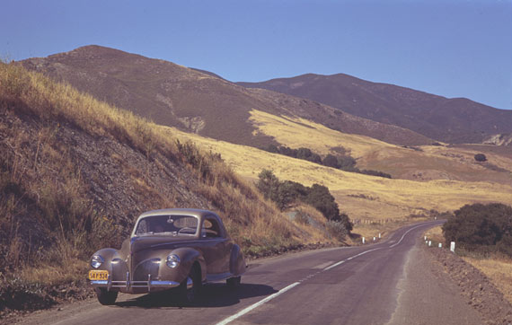 Description: The Morro Bay- Atascadero road. Creator: Cushman, Charles Weever, 1896-1972 View source image or order reproductions. More information on the commercial rights for this photo. Part of Charles W. Cushman Collection Indiana University, Bloomington. University Archives. Brought to you by IMLS Digital Collections and Content. Unrestricted access; use with attribution.